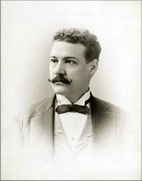 Francis Richter - baseball sportswriter.